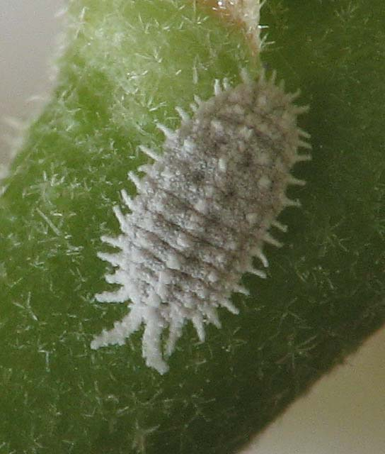 Mature Female of Phenacoccus solani on Malva, Israel